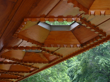 Picture of skylights on deck of Kentuck Knob, a Frank Lloyd Wright home in Stewart Township, PA